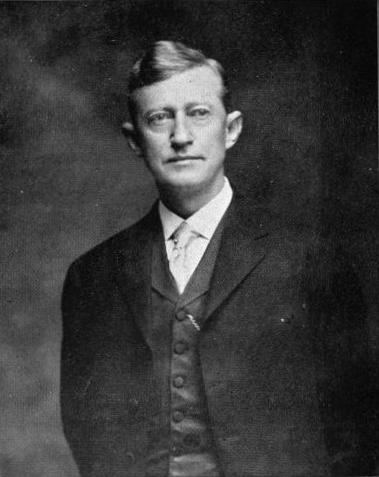 Tennessee Governor Malcolm R. Patterson (1861–1935)